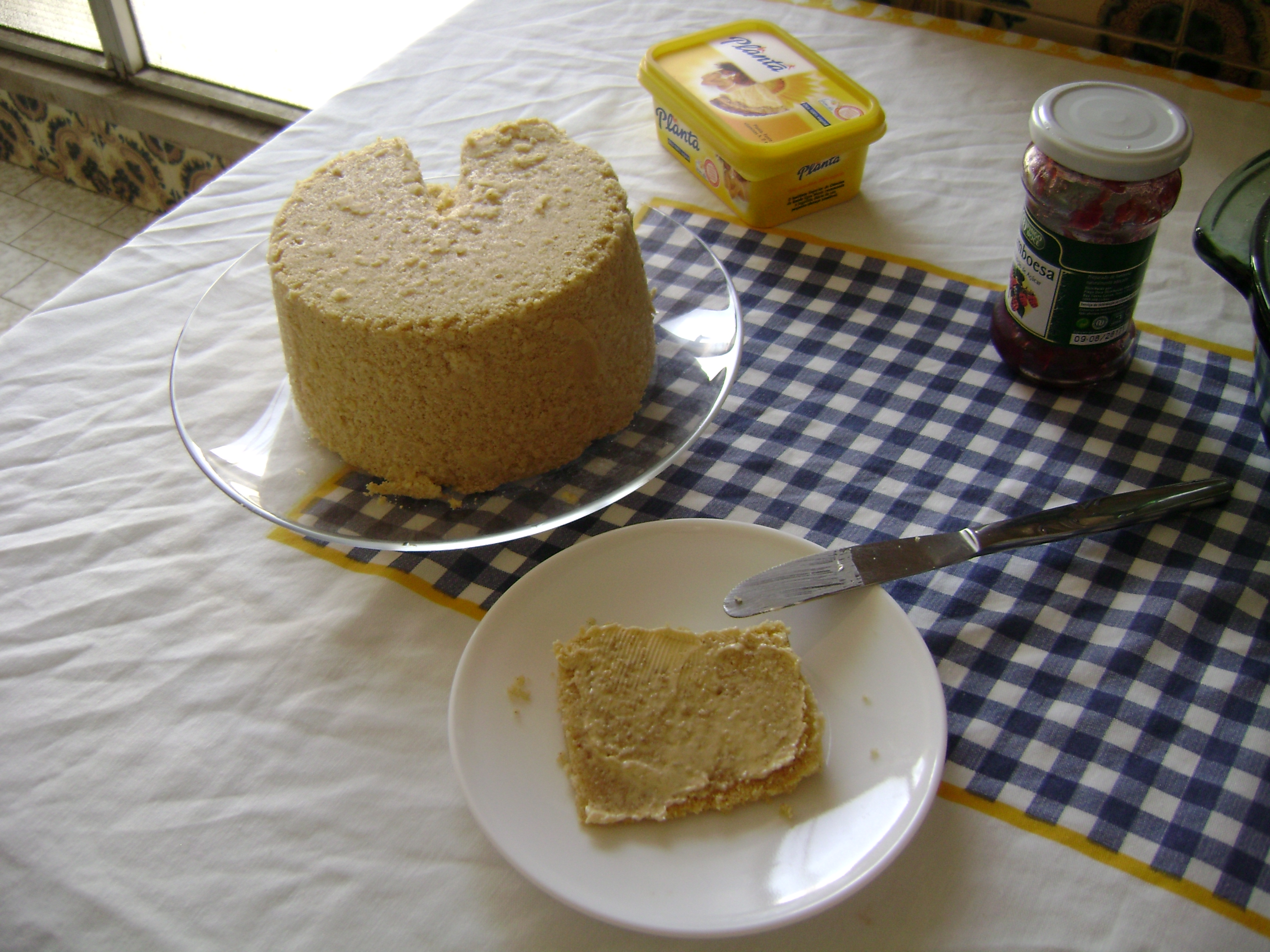 Cape Verdean cuscuz.